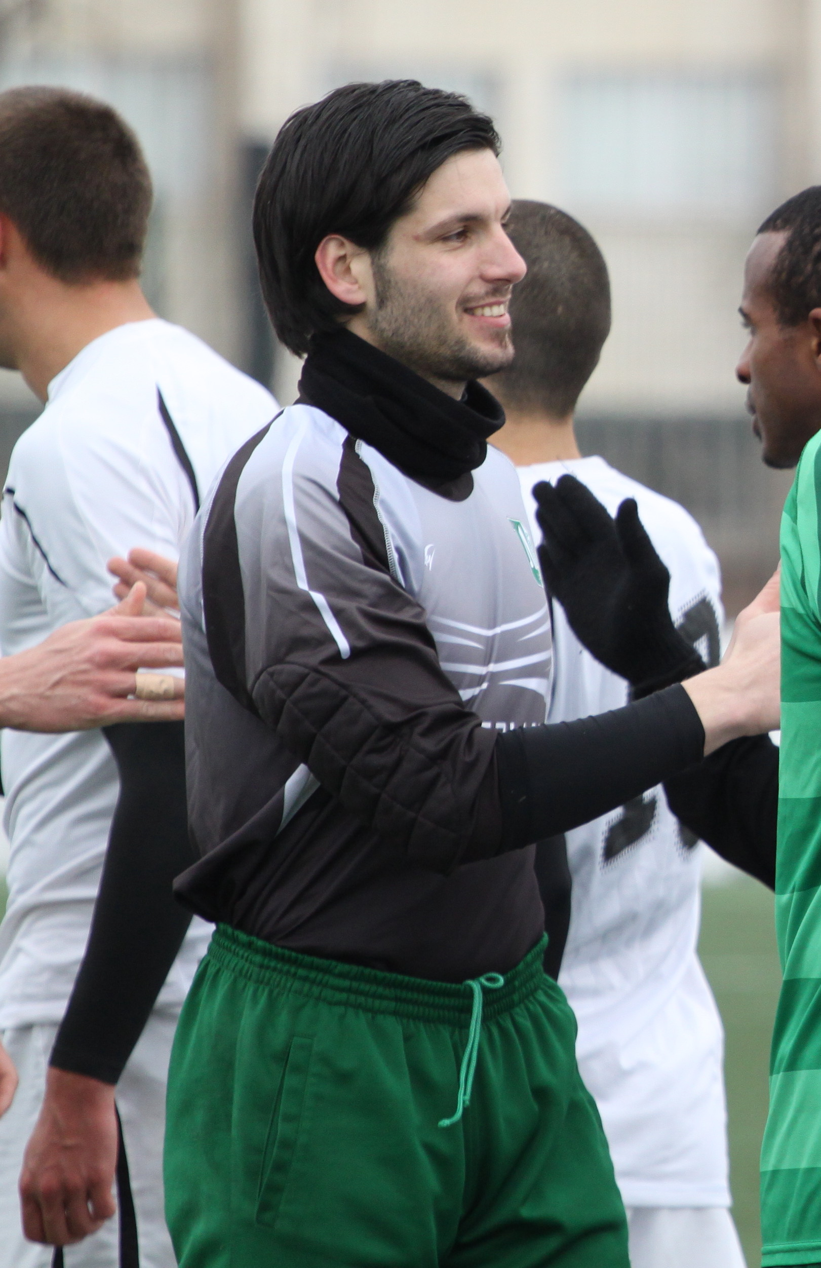 Emil Mihailov - bulgarian goalkeeper, he played for FK Ludogoretz Razgrad